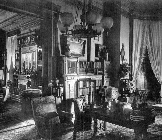 Glenview Sitting Room, Looking into the Ebony Library (c. 1886). View of these rooms in the Glenview Mansion, in Yonkers, New York.